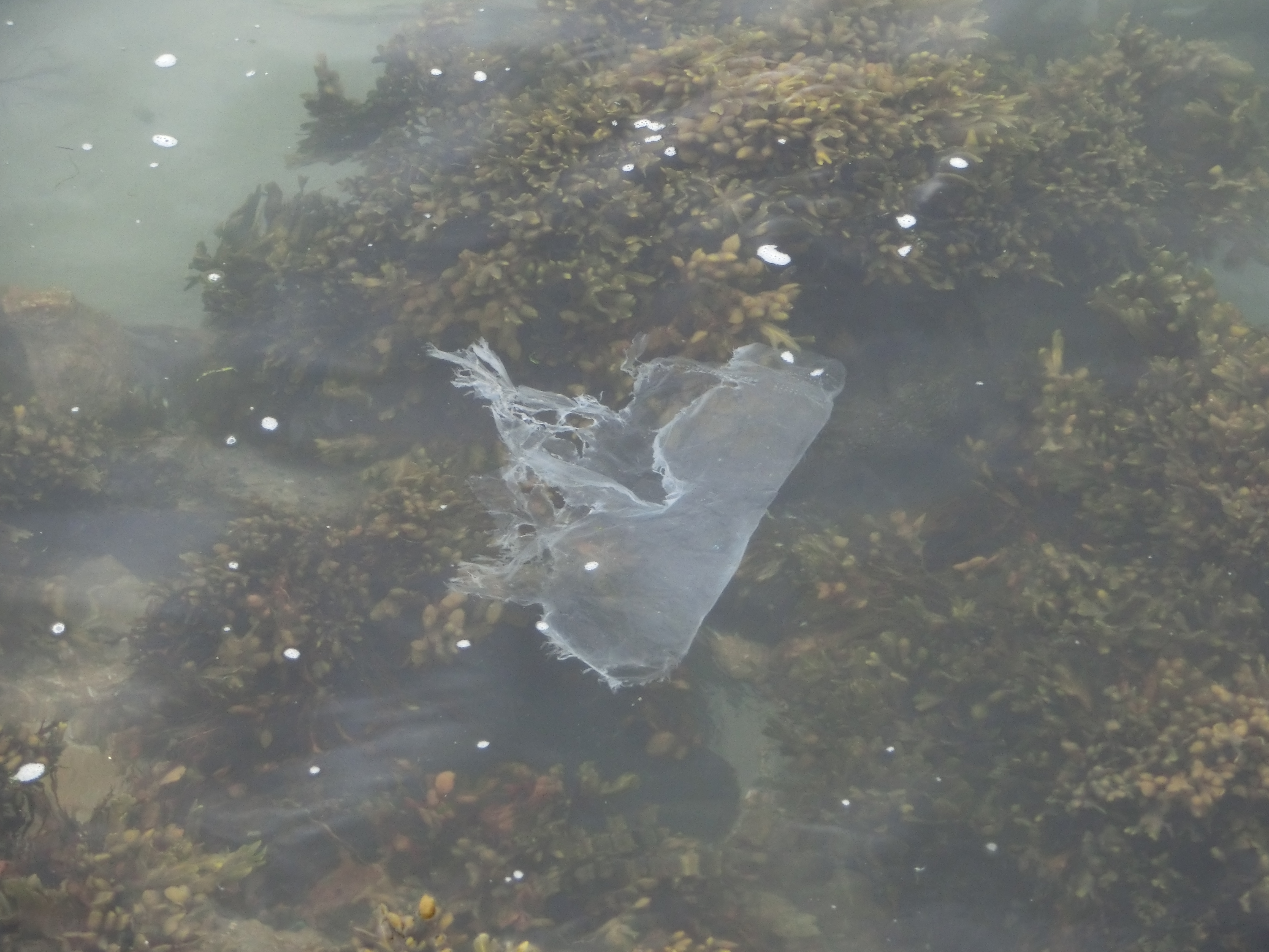 plastic garbage, plastic bag, found floating in a marine harbour, Cornwall, UK. Decaying plastic bag looking like a jellyfish.